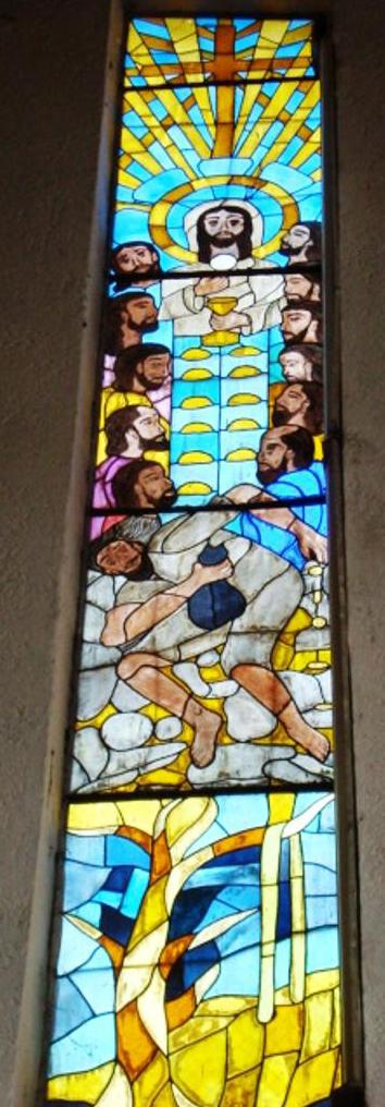 Our Lady of Guadalupe Church, Calle 69 n53 -Av.6, Venustiano Carranza, Federal District, Mexico. Stained glass window of Last Supper.